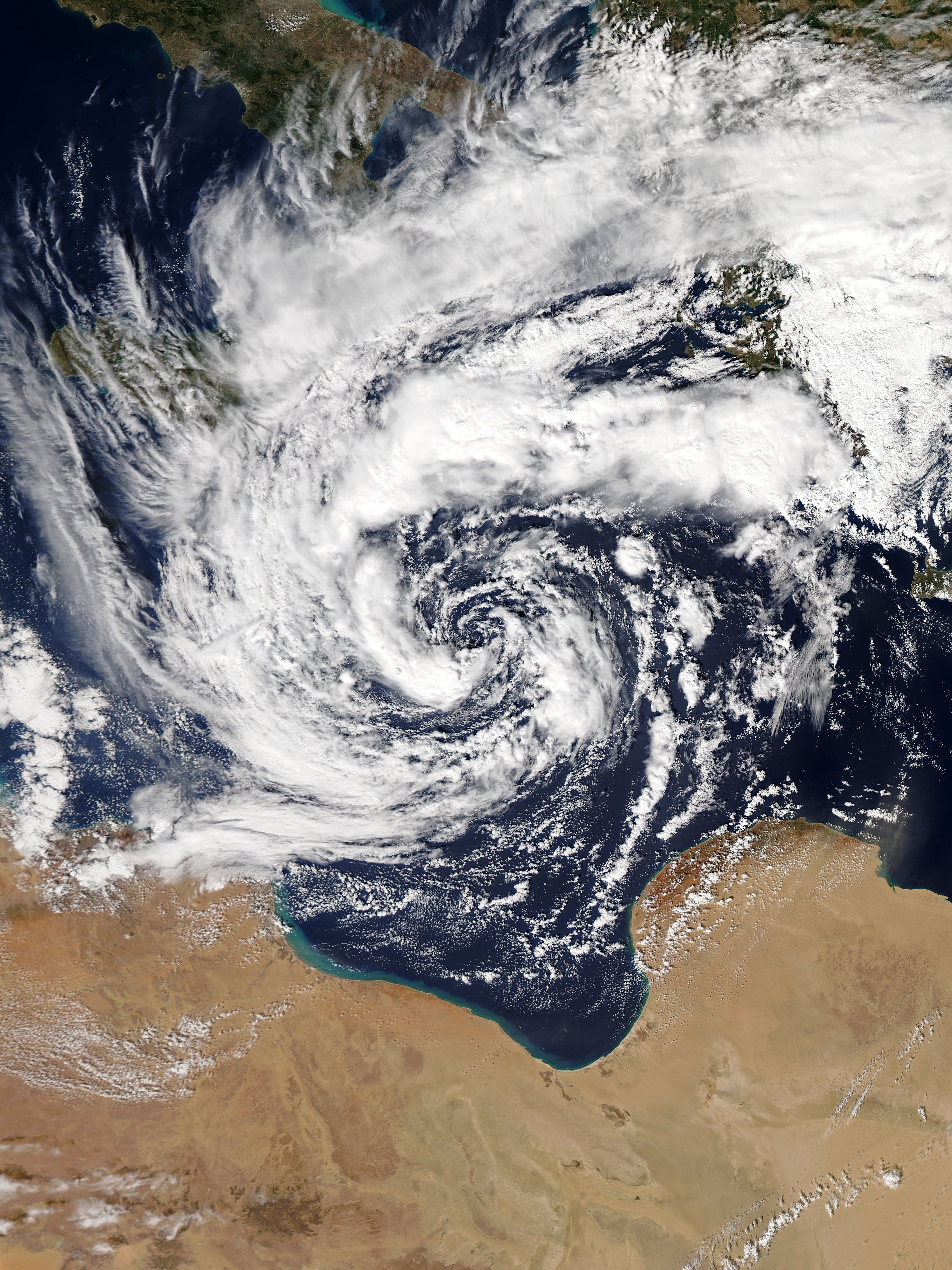 Medicane Zorbas southeast of Sicily on 28 September 2018.